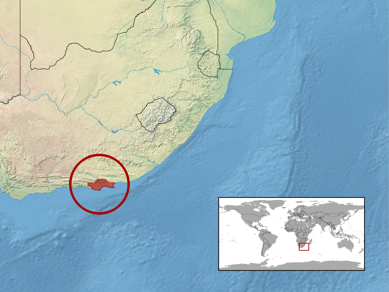 geographic distribution of Bradypodion taeniabronchum (Native: South Africa)